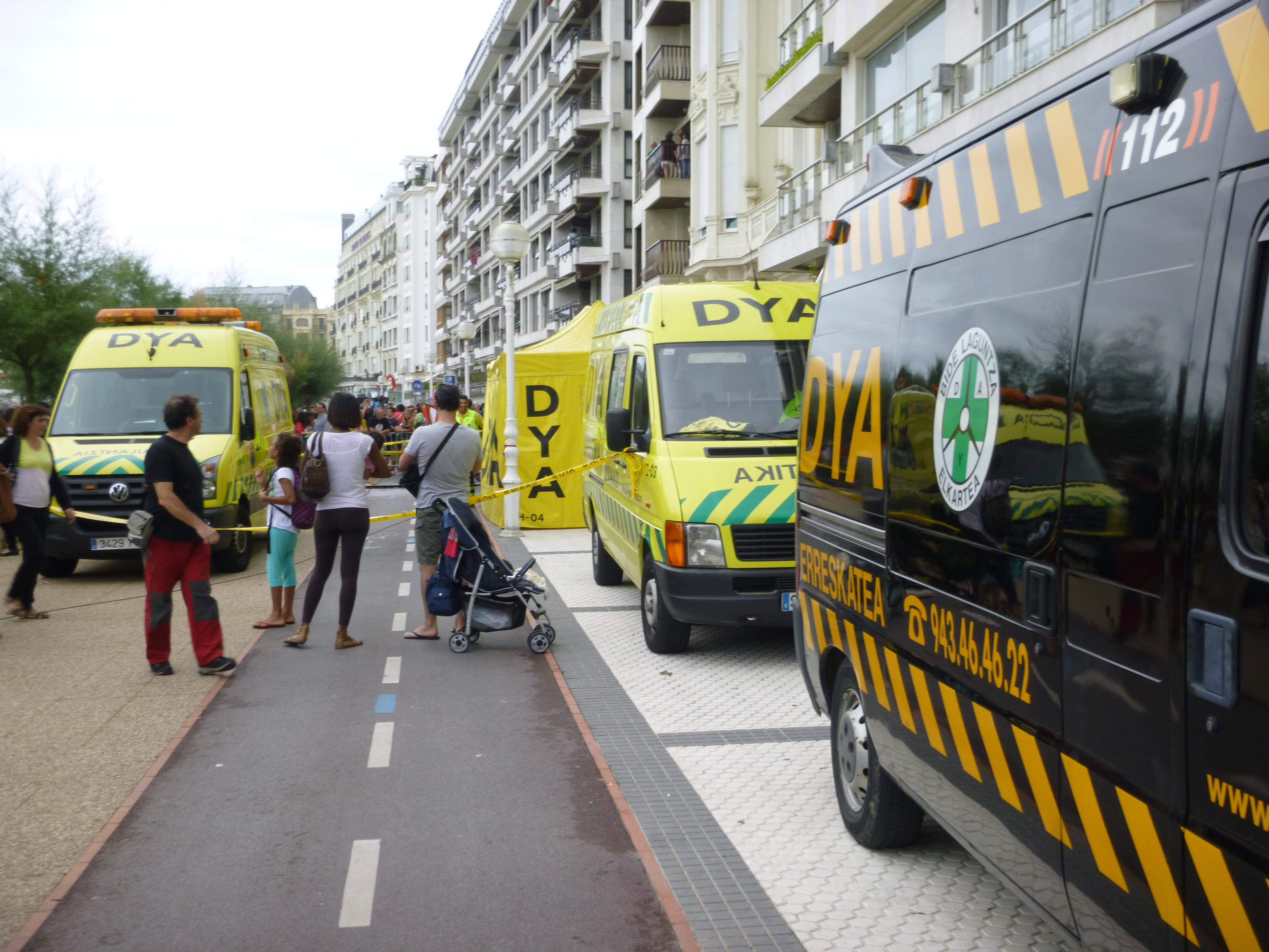 Abordatzera, 2014